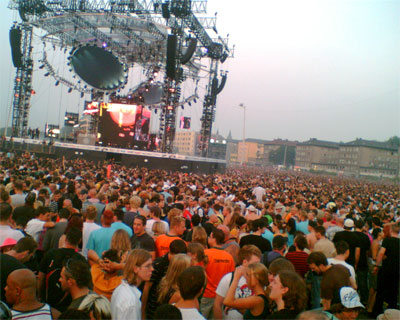 Loveparade 2007 in Essen